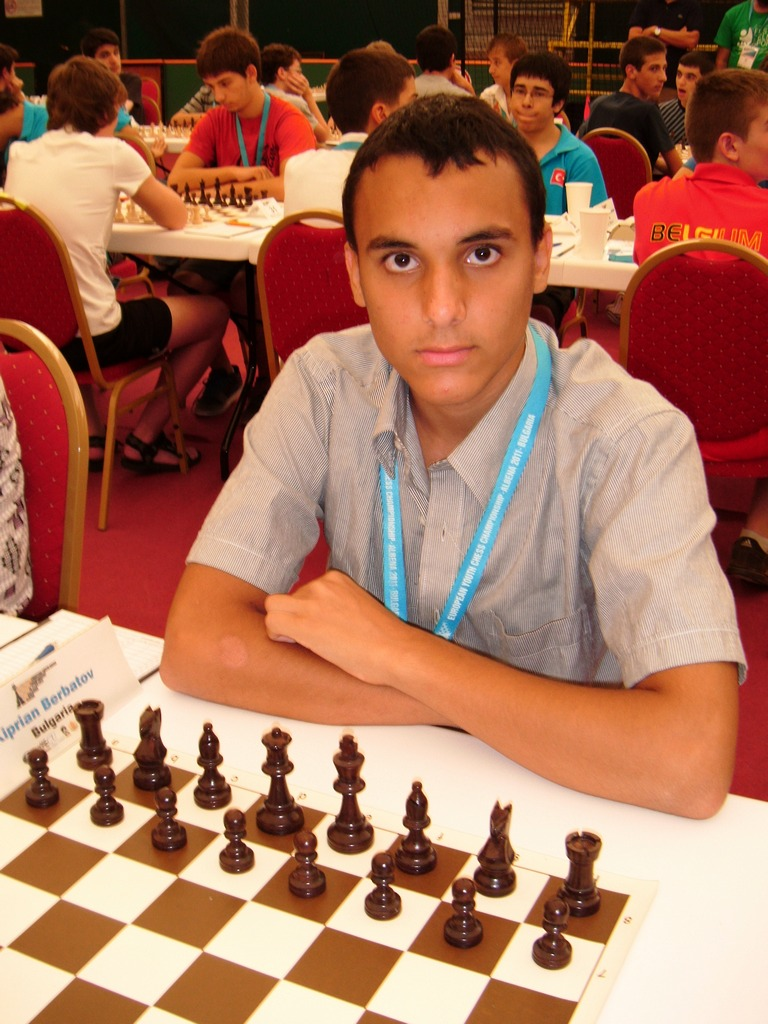 Kiprian Berbatov playing in the European Youth Chess Championship in Albena (Bulgaria)